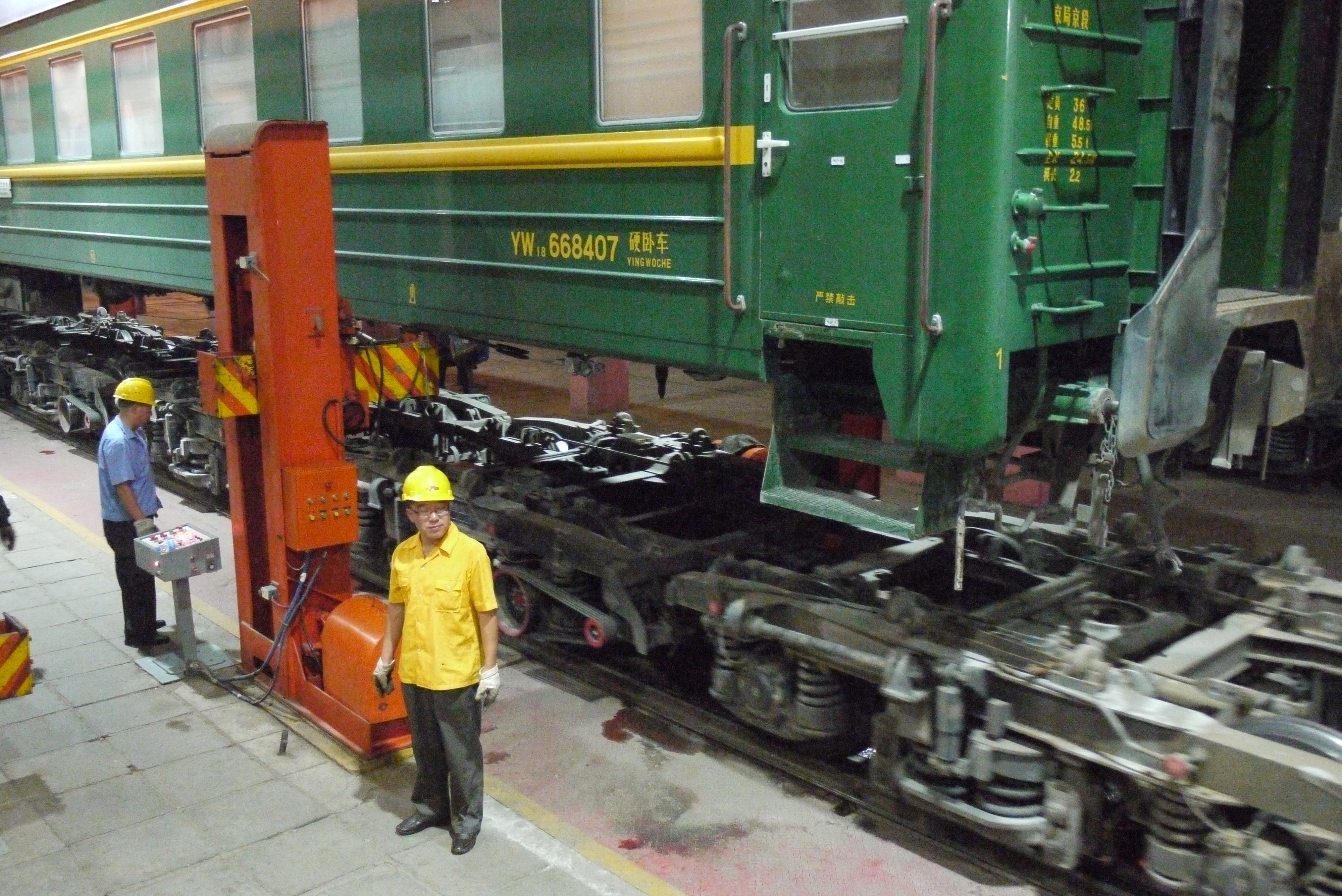 Old (Chinese) bogies are towed out at the China/Mongolia border. China uses standard-gauge rail, whereas Mongolia uses the slightly larger Russian gauge.